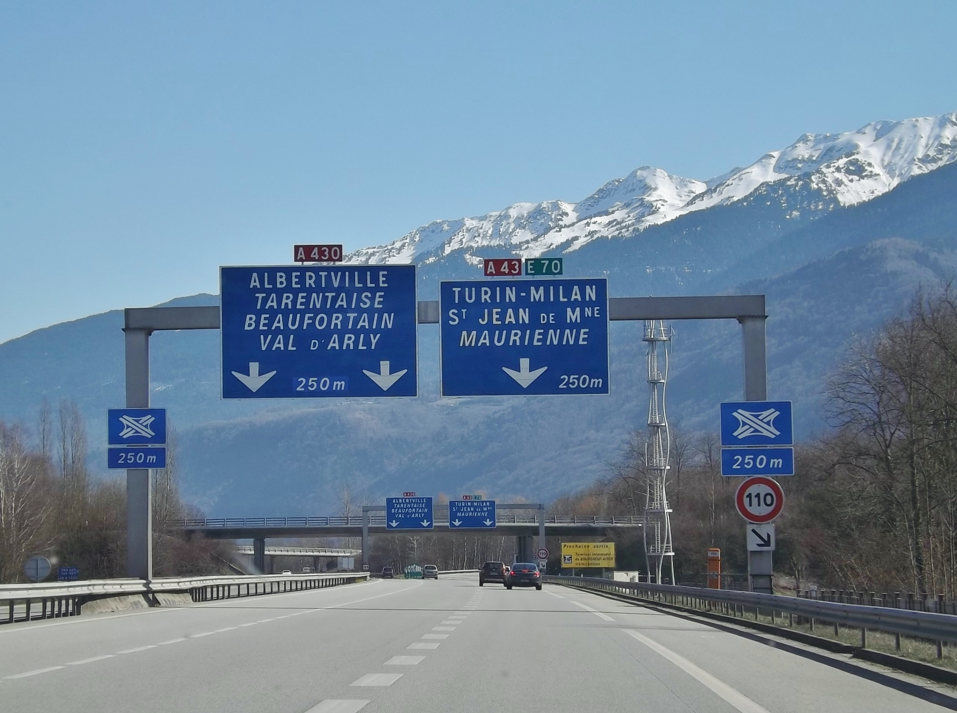 The beginning of the motorway A430 to Albertville, from motorway A43, in Savoie, France.